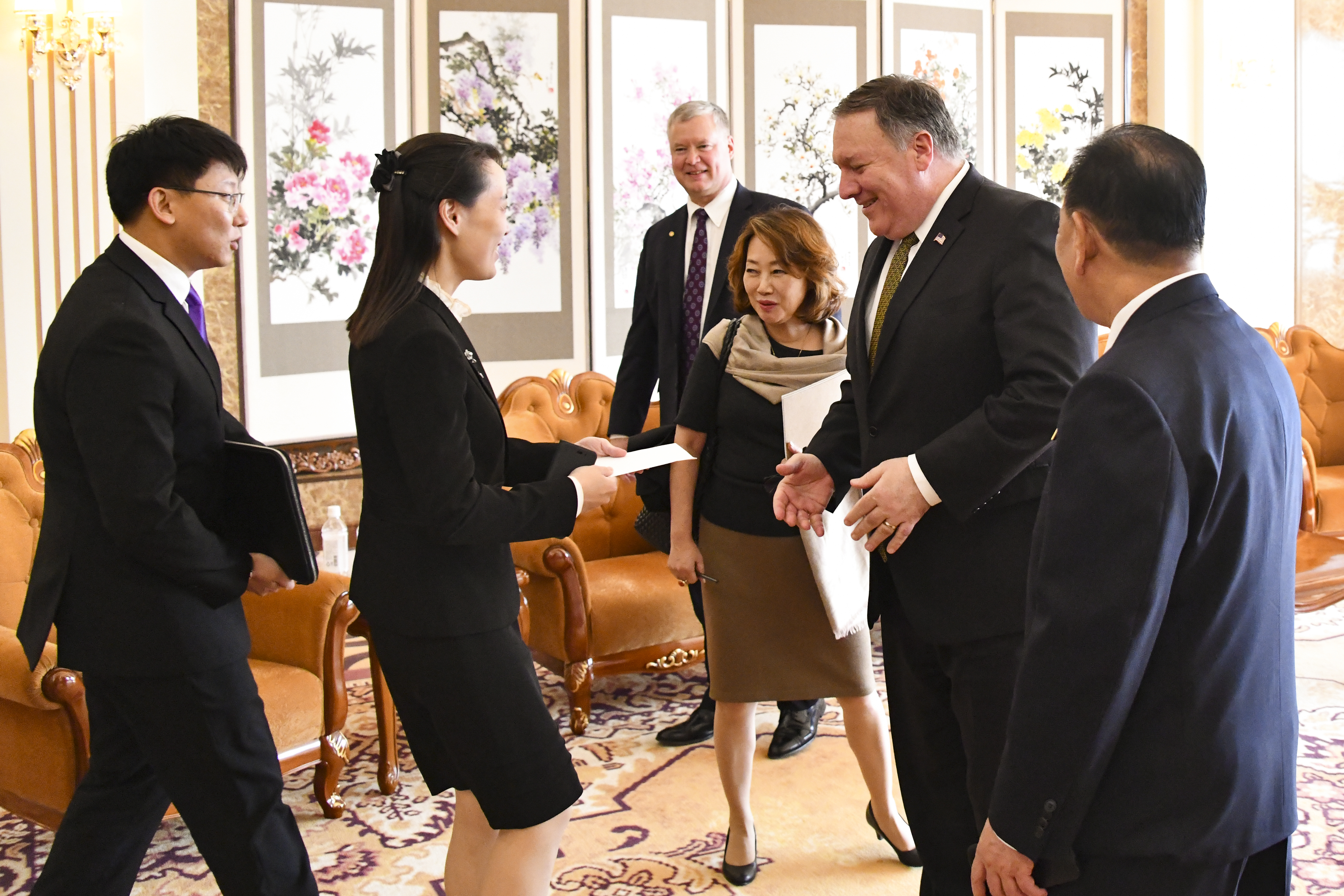 Secretary of State Michael R. Pompeo receives photos from his meeting with Chairman Kim Jong Un from Chairman Kim's sister, Kim Yo Jong, in Pyongyang, Democratic People's Republic of Korea on October 7, 2018. [State Department photo/ Public Domain]